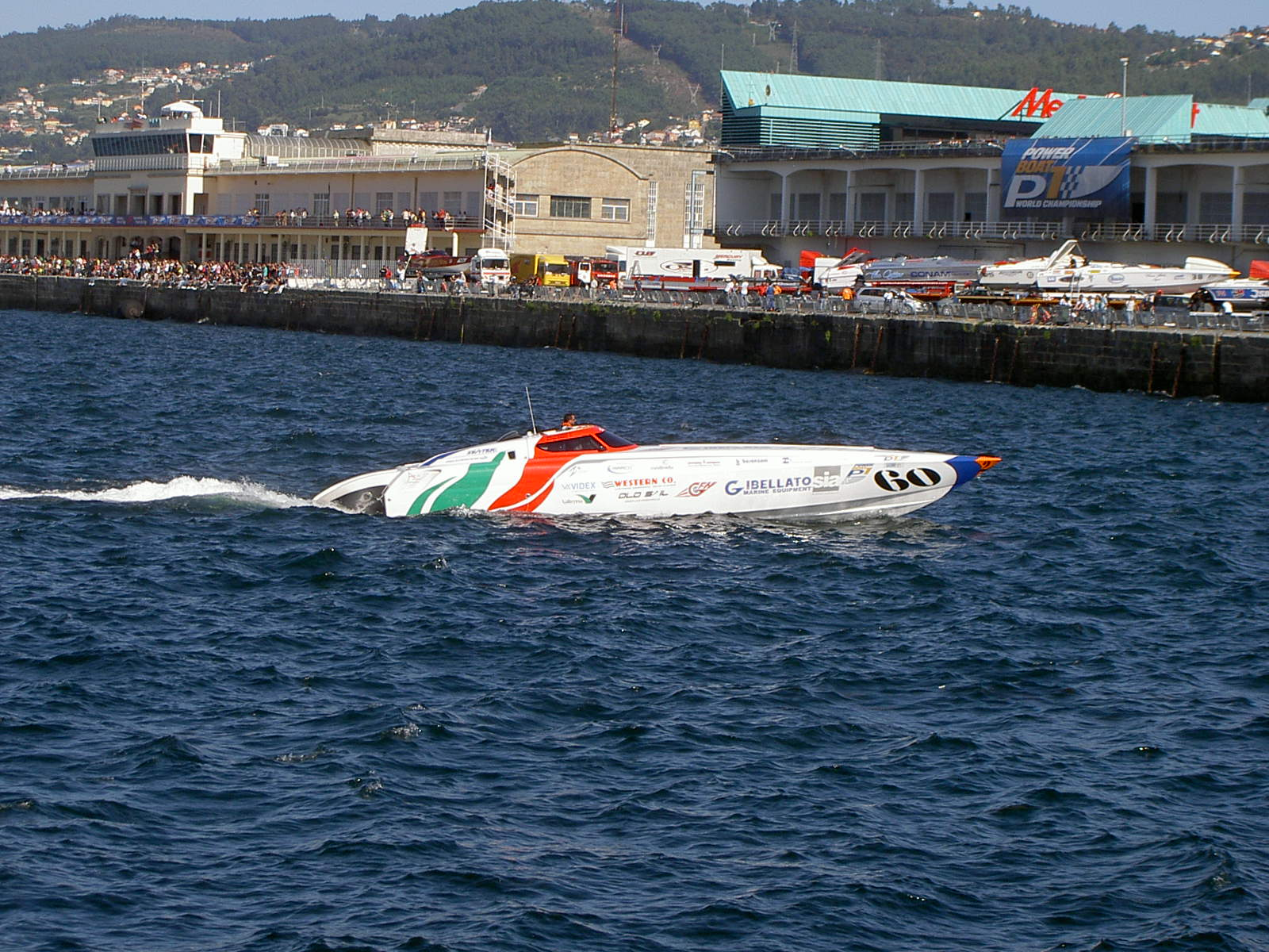 P1 Powerboat Racing in Vigo in 2008